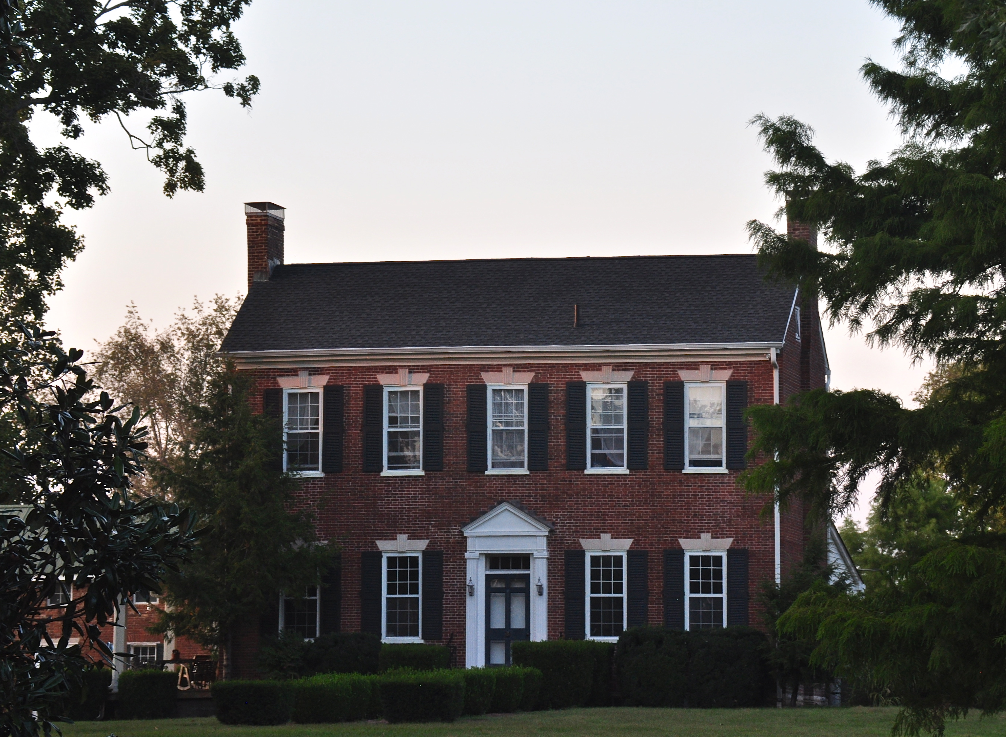 Nicholas Tate Perkins House, Del Rio Pike, 0.2 miles (0.32 km) west of Cotton Rd. Franklin